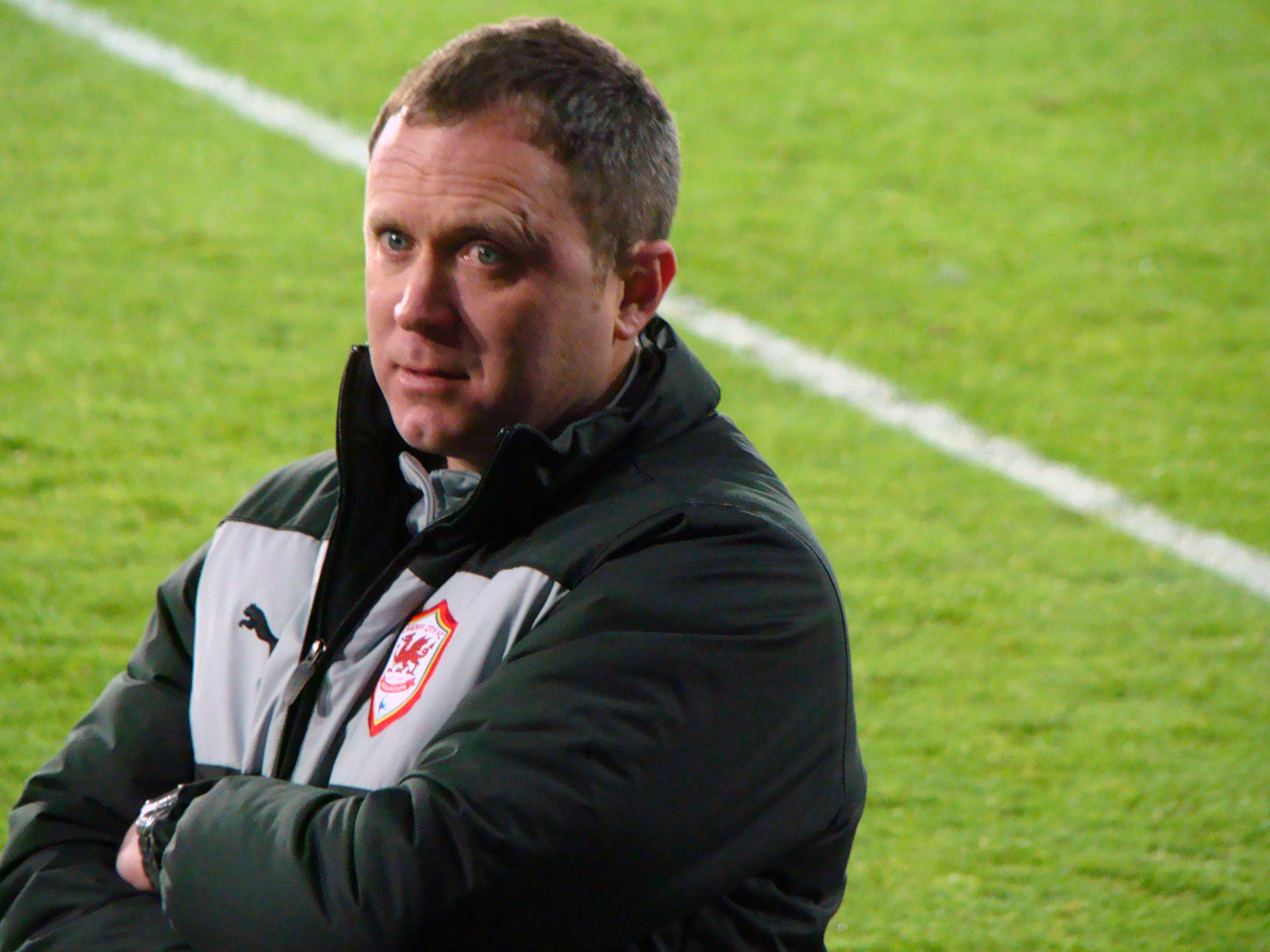 14/01/13 Cardiff DVP v Barnet, Cardiff City Stadium, Cardiff, Wales